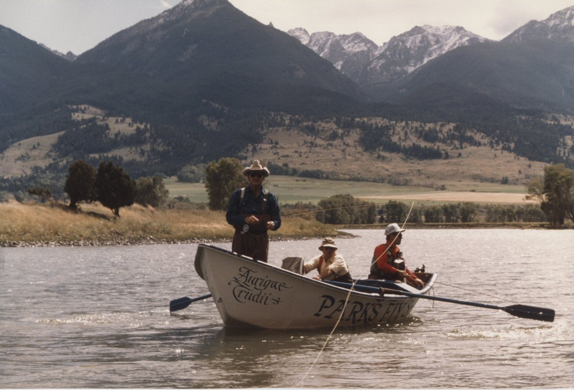 Richard Parks rowing clients on the Yellowstone River, circa 1980